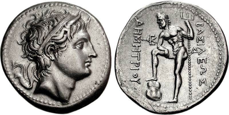 KINGS of MACEDON. Demetrios I Poliorketes. 306-283 BC. AR Tetradrachm (16.96 g, 12h). Amphipolis mint. Struck circa 290-289 BC. Diademed and horned head right / Poseidon Pelagaios standing left, right foot on rock, holding trident; monograms to inner left and right.